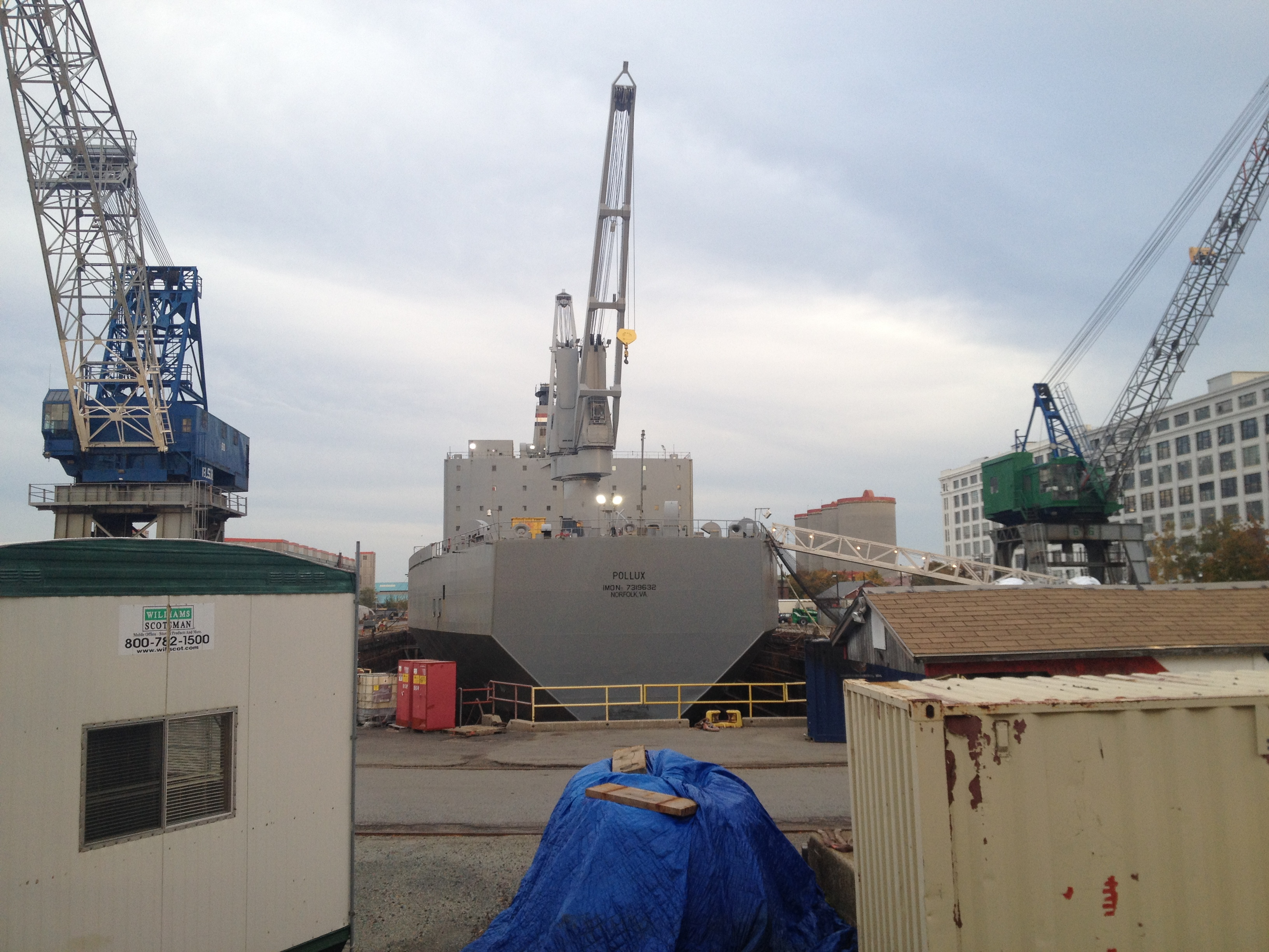 USNS Pollux (T-AKR-290) undergoing repairs at Boston's Drydock Number 3